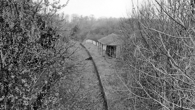 Bishopsbourne Station (remains). View NW, towards Canterbury; Canterbury West - Shorncliffe (Elham Valley) line. The survival of the station building is remarkable, as the station closed on 1/12/40! See TR2049 : Barham Station (remains) for history of the line, which closed finally on 1/6/47.